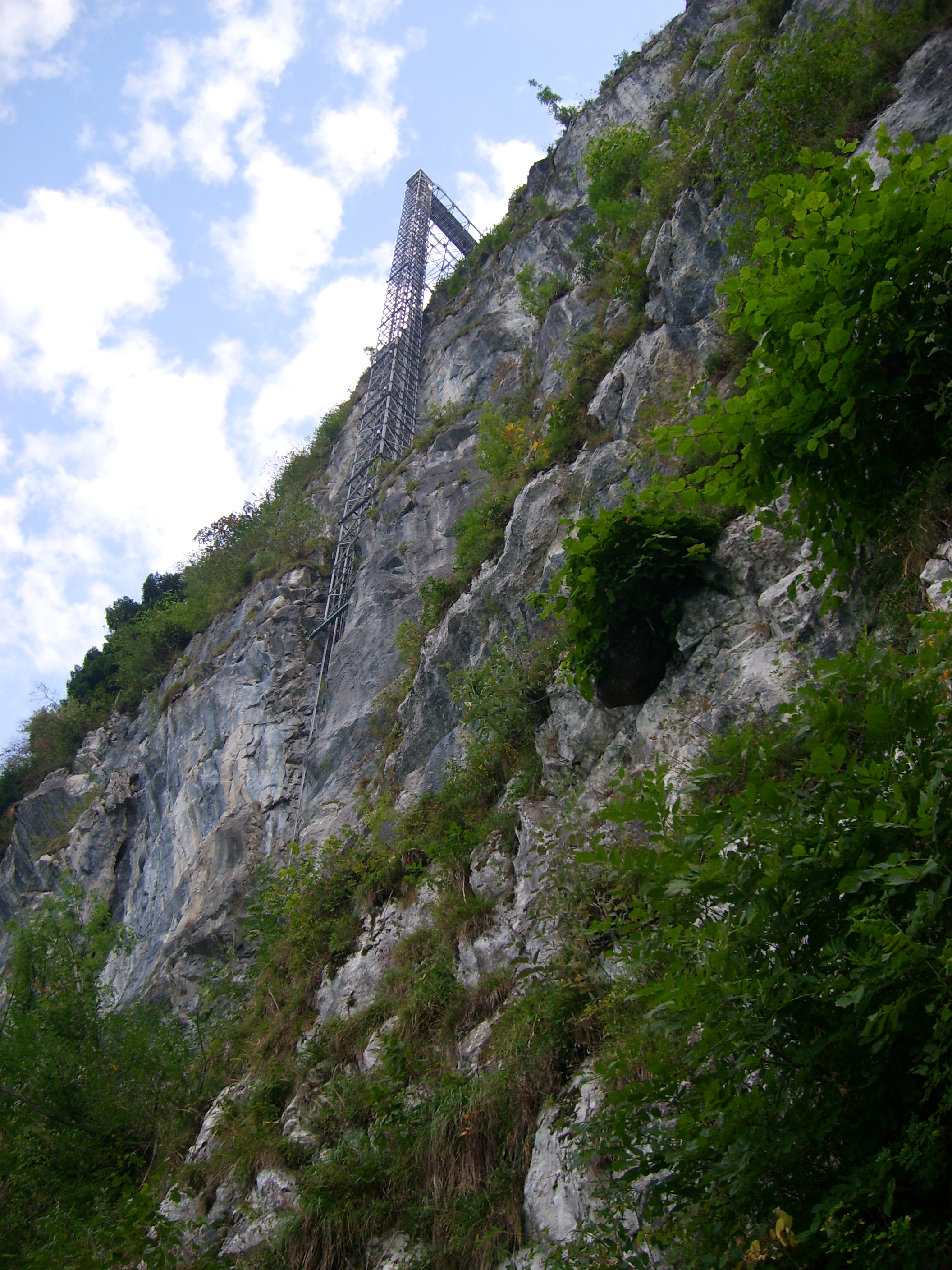 Hammetschwand Elevator